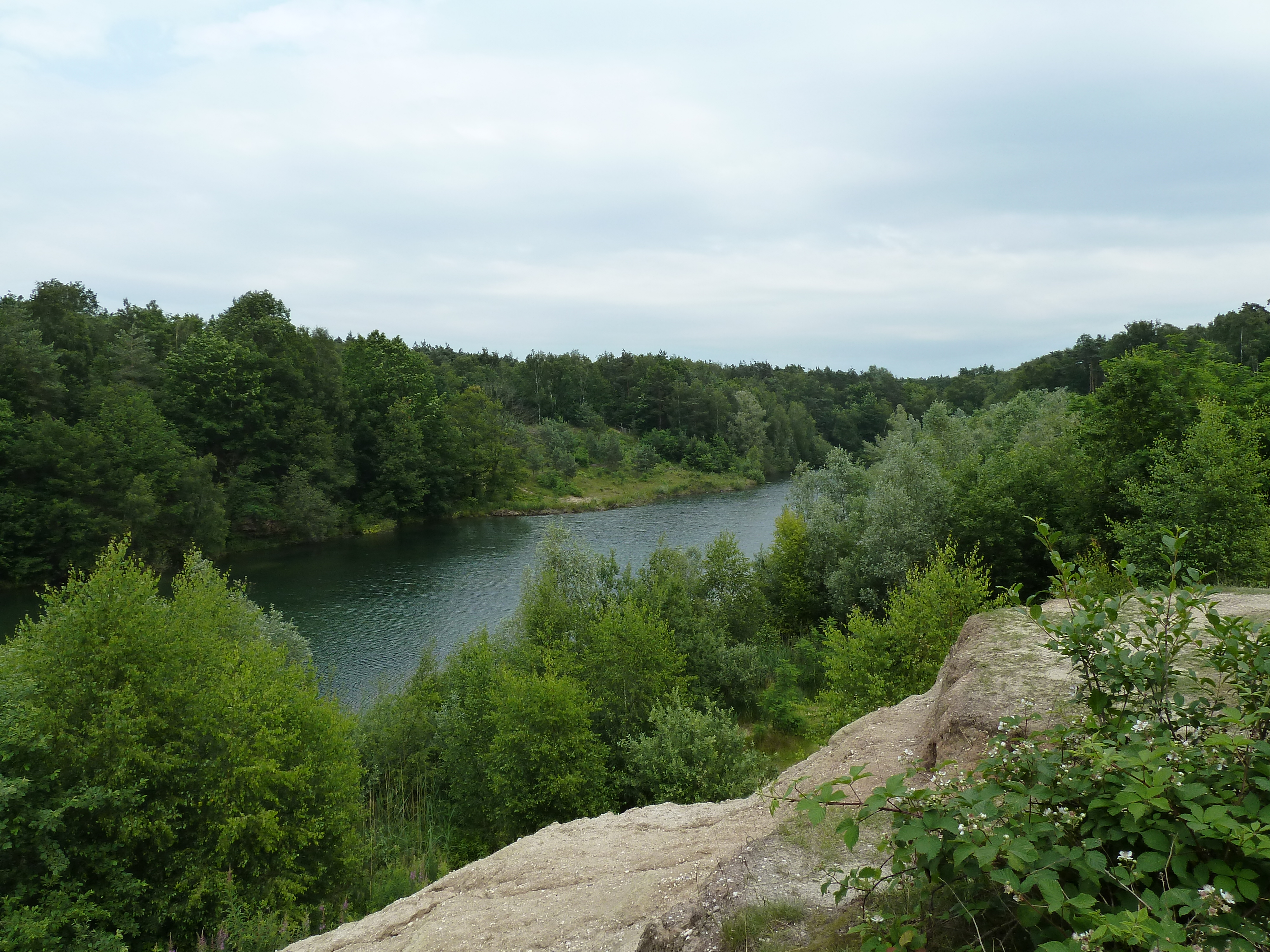 Jammerdaalse Heide, Venlo, the Netherlands